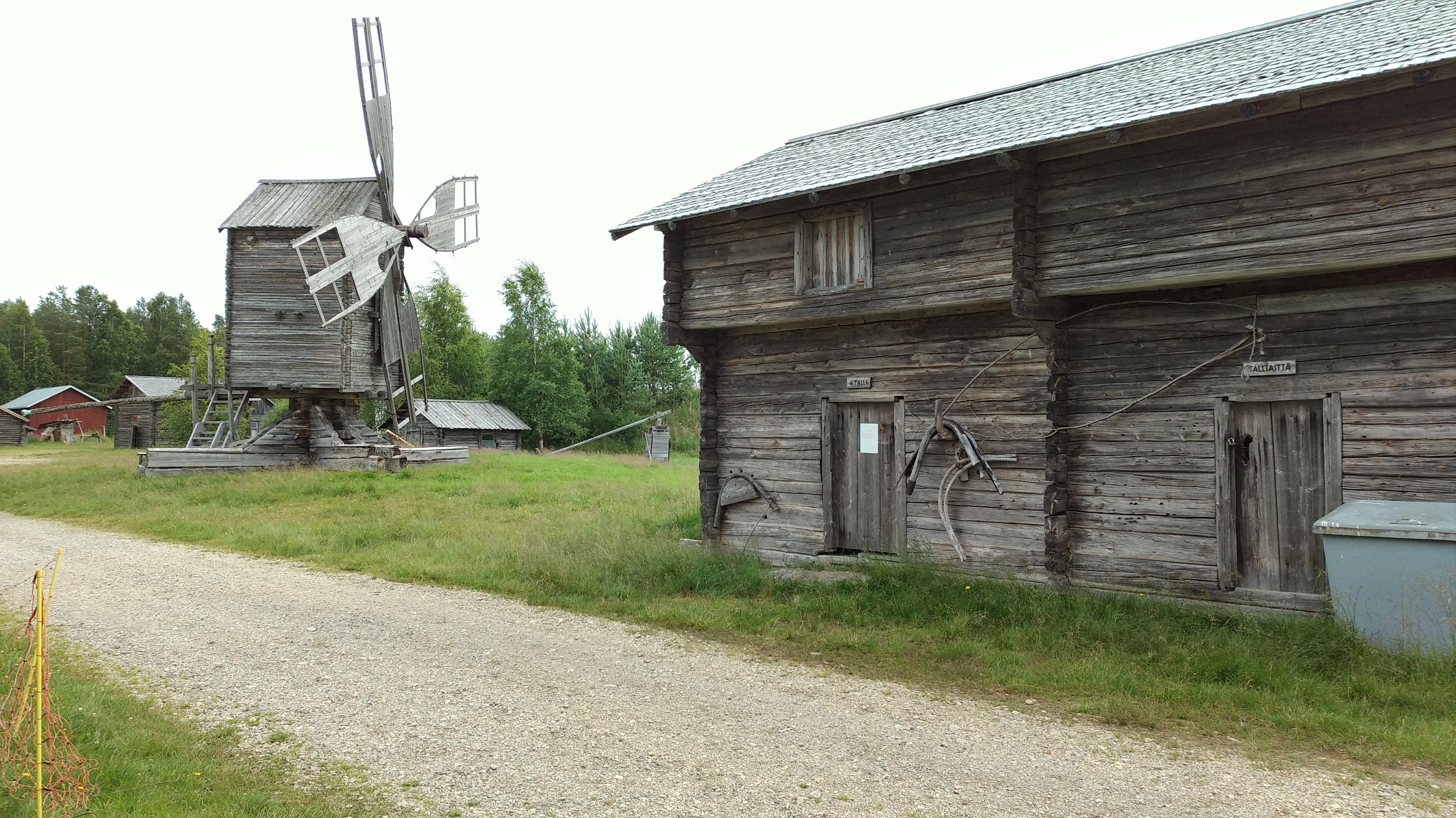 A sight to the Riihipiha museum area in Vuolijoki, Kajaani, Finland.